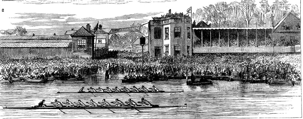 Oxford-Cambridge Boat Race dead heat finish - B&W engraving - 1877